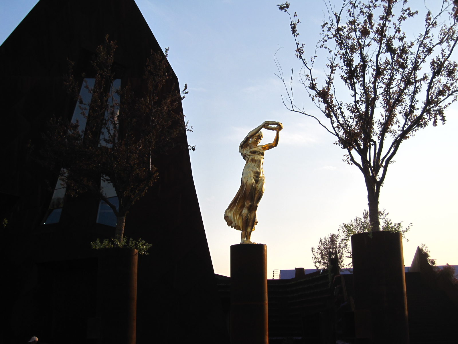 Gëlle Fra(Golden Lady) in Luxembourg Pavilion of Expo 2010